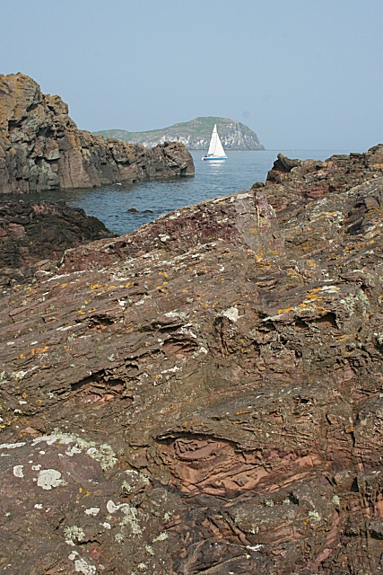 Lava Flow The promontory on which the Scottish Seabird Centre stands is made up of three lava flows, all dipping to the west. The rocks on the right here are mugearite of the middle flow, and on the left is a spur of the topmost flow, which is of hawaiite lava. The island of Craigleith is visible beyond the sailing boat. Located at North Berwick, Scotland.